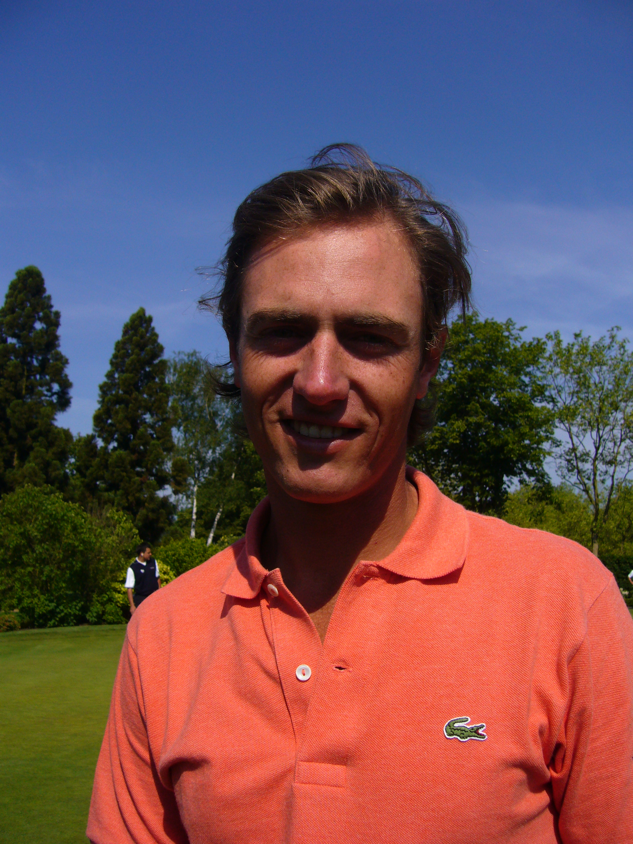 Nicolas Colsaerts, Belgian golfprofessional